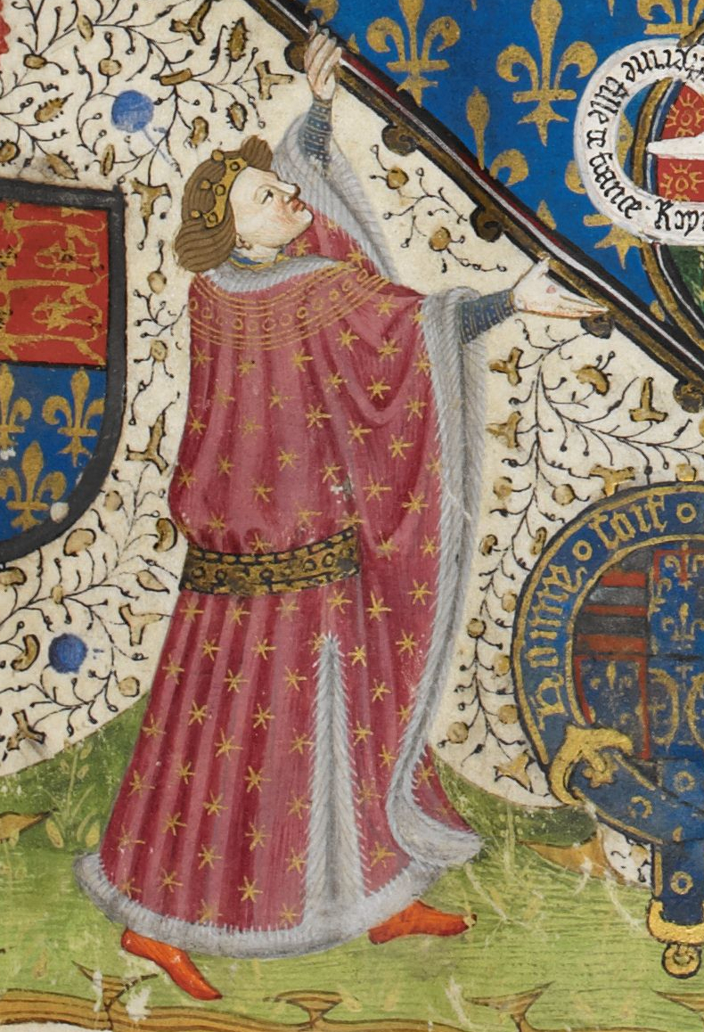 Detail from the frontispiece of the illuminated manuscript Talbot Shrewsbury Book. In this detail Humphrey, Duke of Gloucester is shown supporting a giant fleur-de-lys, tracing the ancestry of Henry VI back to Saint Louis IX and justifying Henry's claim to the kingdom of France.